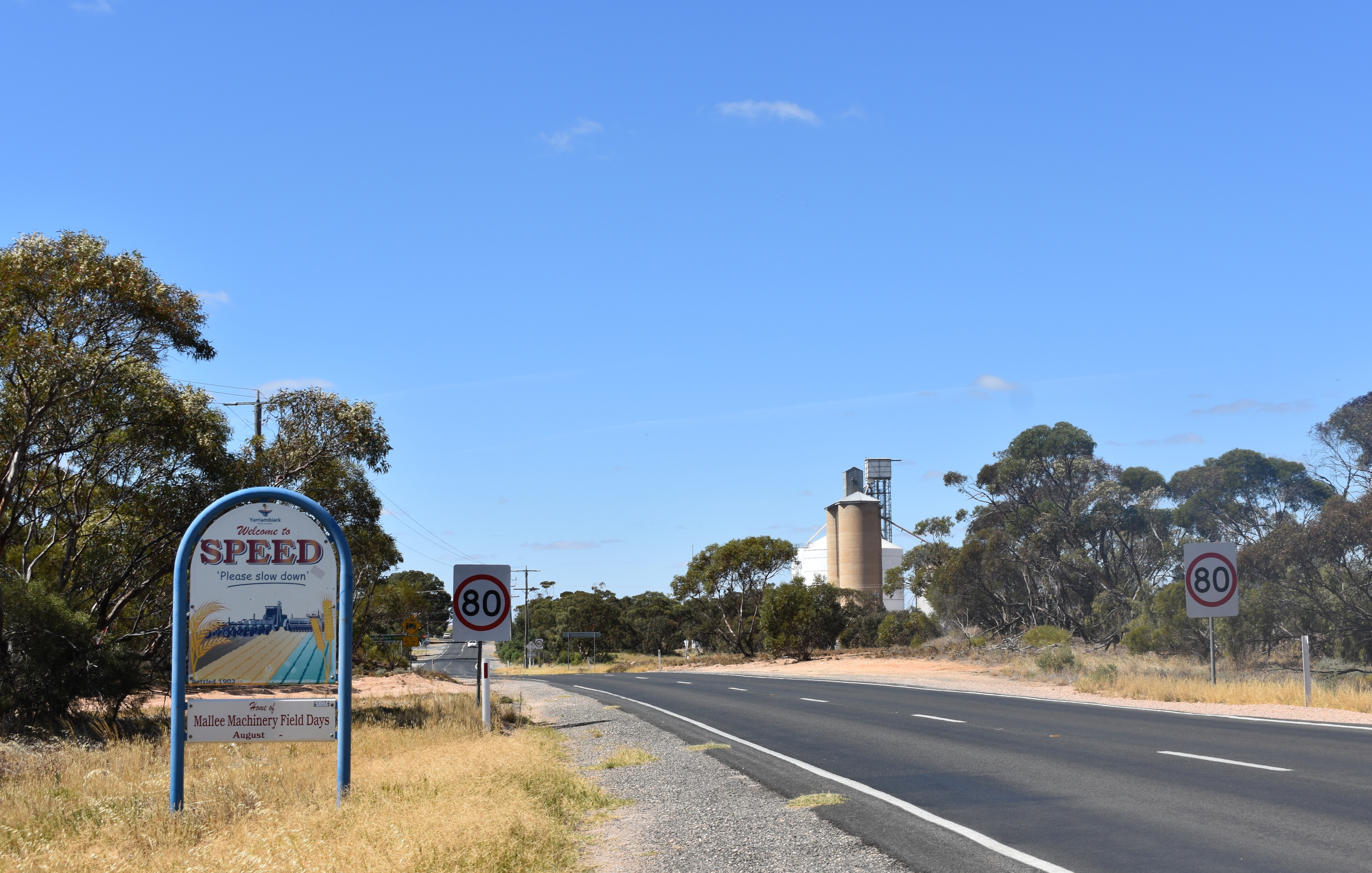 Town entry sign at Speed, Victoria